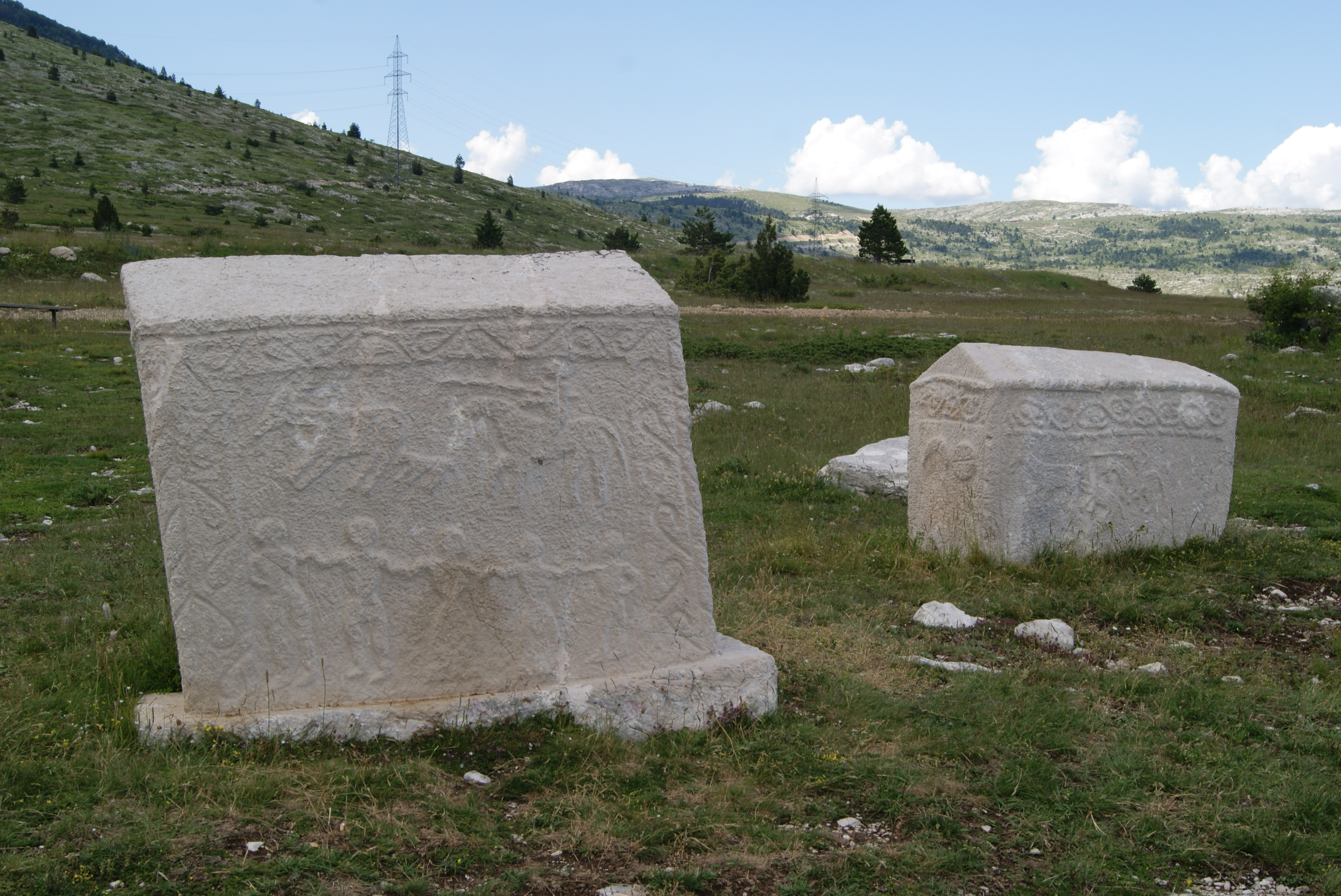 Dugopolje necropolis with prominent highly decorated stećak known as No 15